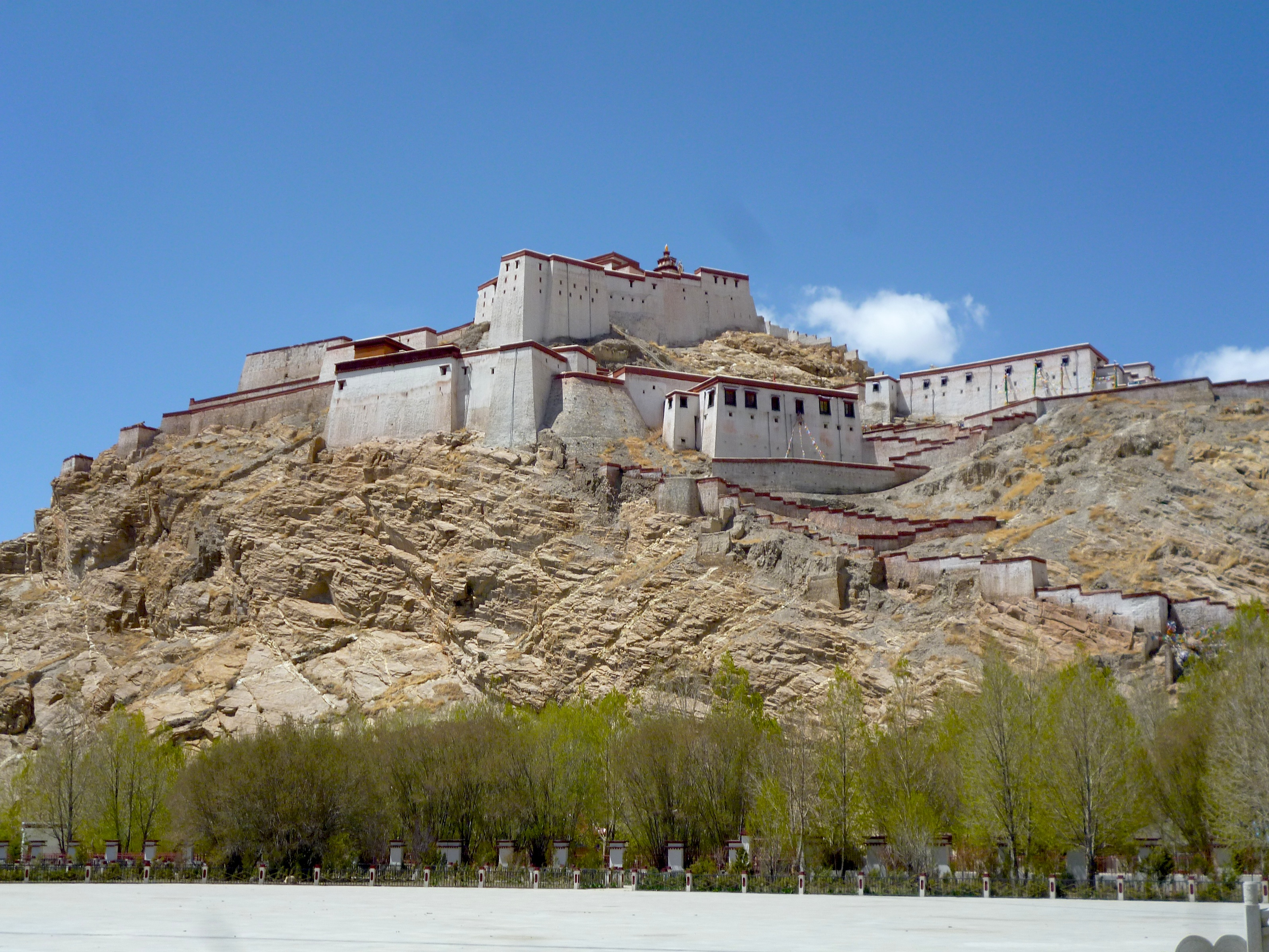 The Fortification of Gyangze the 'Gyangze Dzong', Tibet